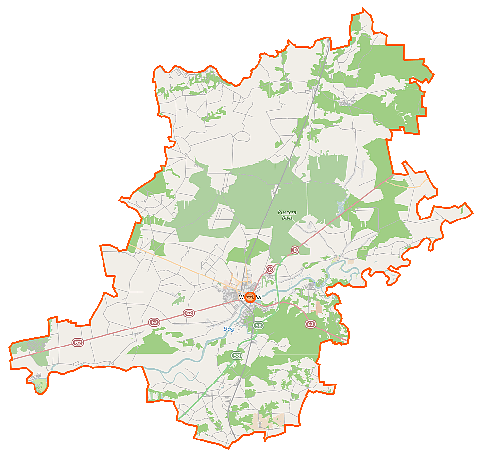 Map of Powiat wyszkowski, Poland This map of Powiat wyszkowski was created from OpenStreetMap project data, collected by the community. This map may be incomplete, and may contain errors. Don't rely solely on it for navigation. Border coordinates52.846721.1047←↕→21.785252.4560